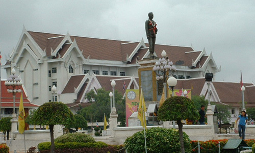 Phraya Lae Monument in front of Chaiyaphum Province Hall